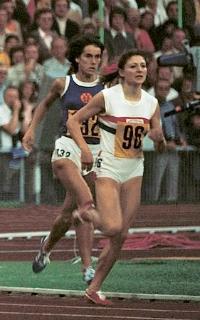 The 1500 meters final at the 1972 Olympics: Gunhild Hoffmeister (East Germany) (left) and Sheila Taylor-Carey (UK)